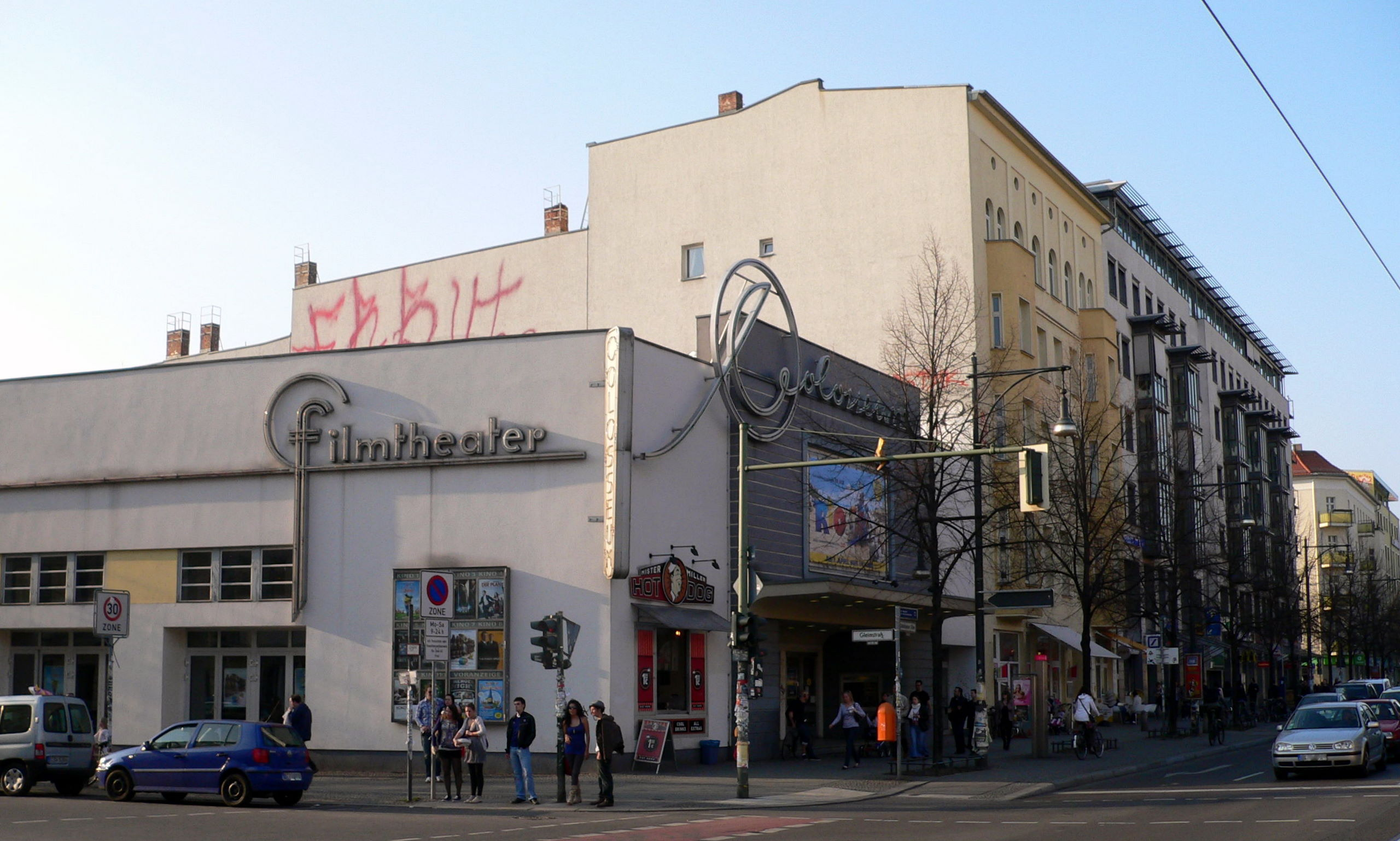 Berlin-Prenzlauer Berg Movie-theater Colosseum